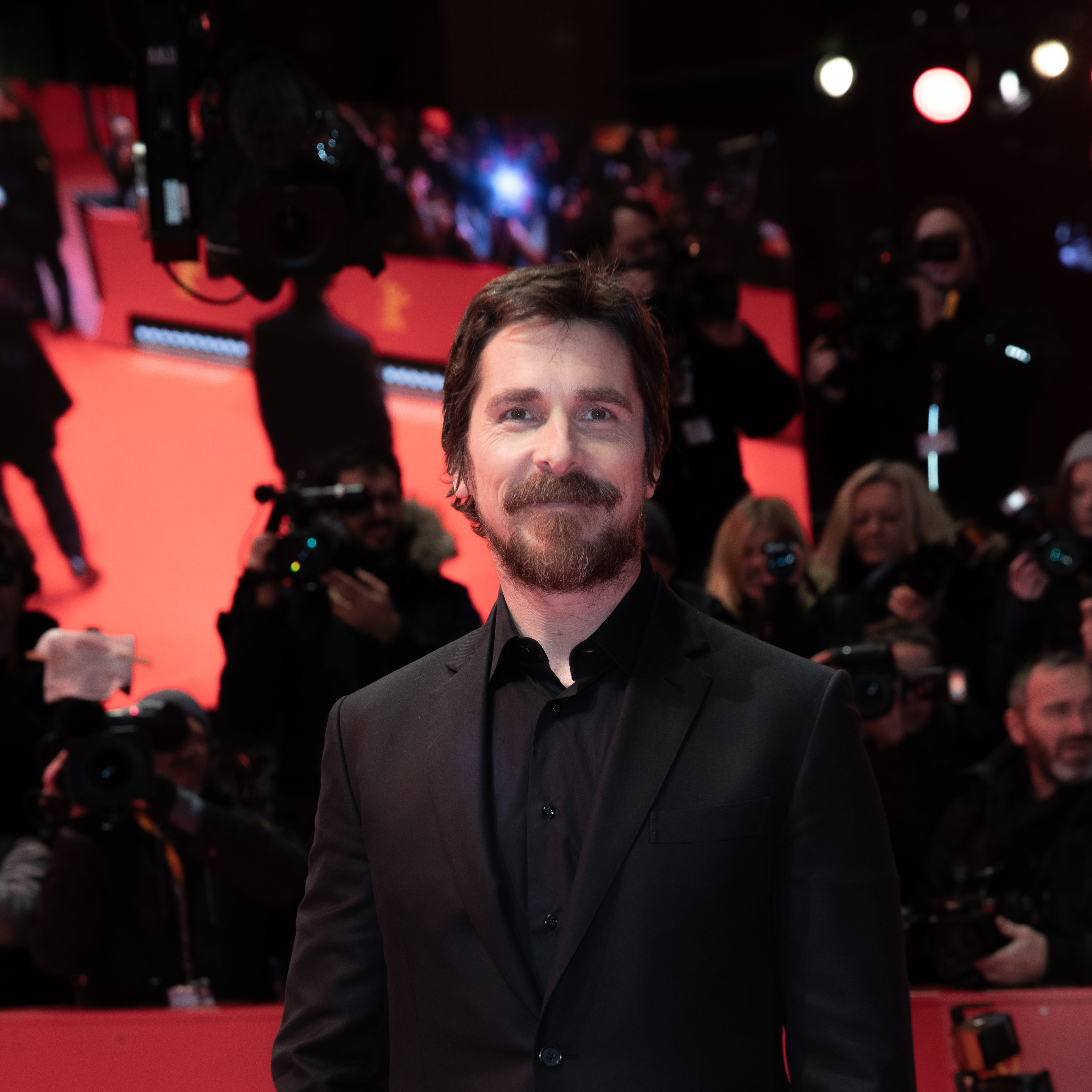 Christian Bale presenting the movie "Vice" at the Berlinale 2019